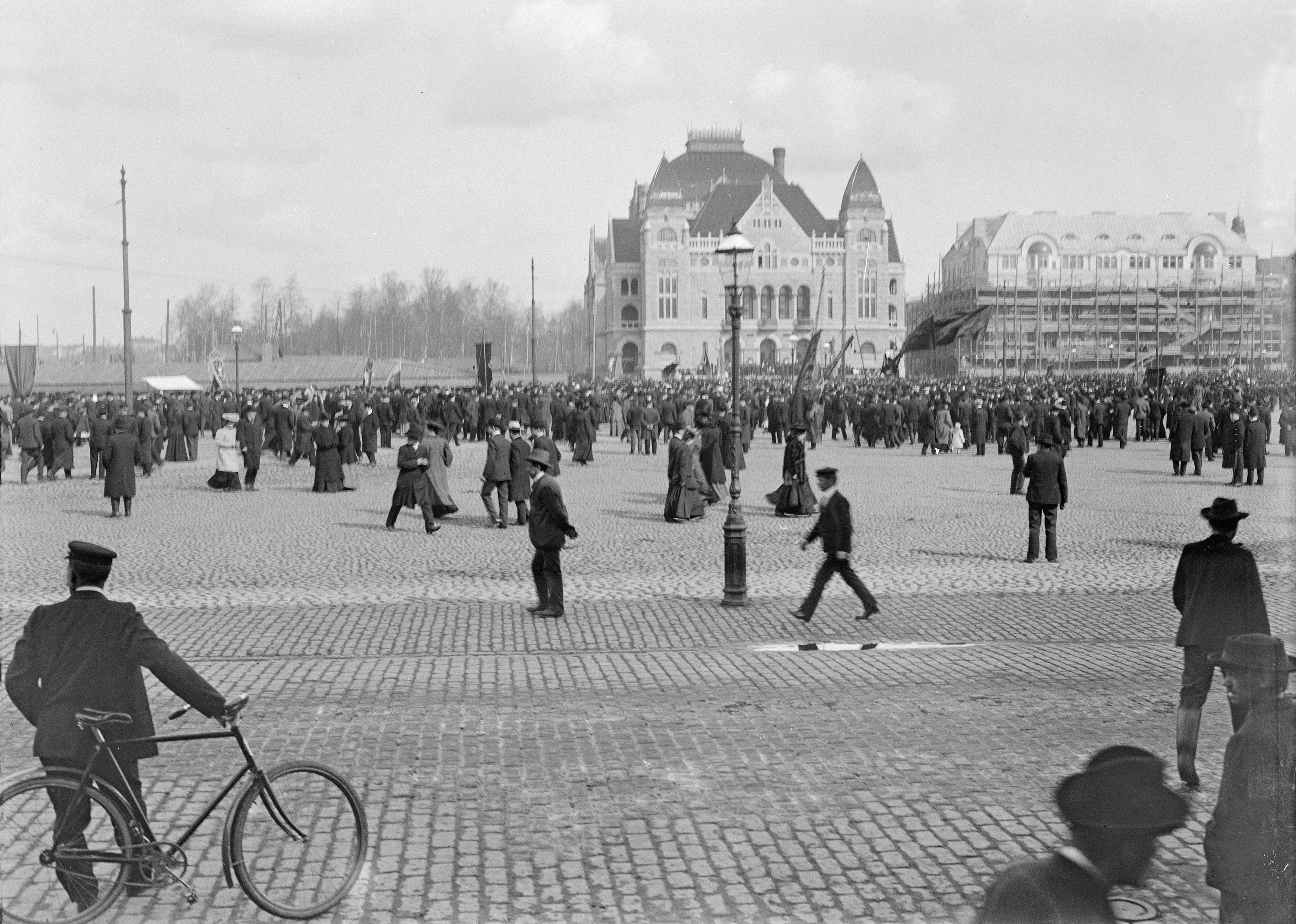 Järnvägstorget med Nationalteatern. Foto Gustaf Sandberg. sls1849_141 Ur boken Helsingfors i ord och bild Utgiven av Svenska litteratursällskapet i Finland, 2012